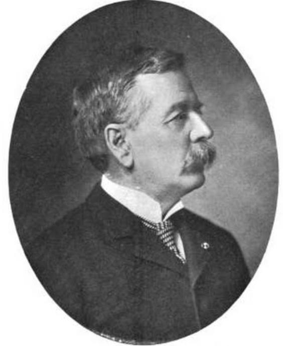 Photograph of Charles Mattocks when he was a Probate Judge; appeared in his biography by the Chamber of Commerce.